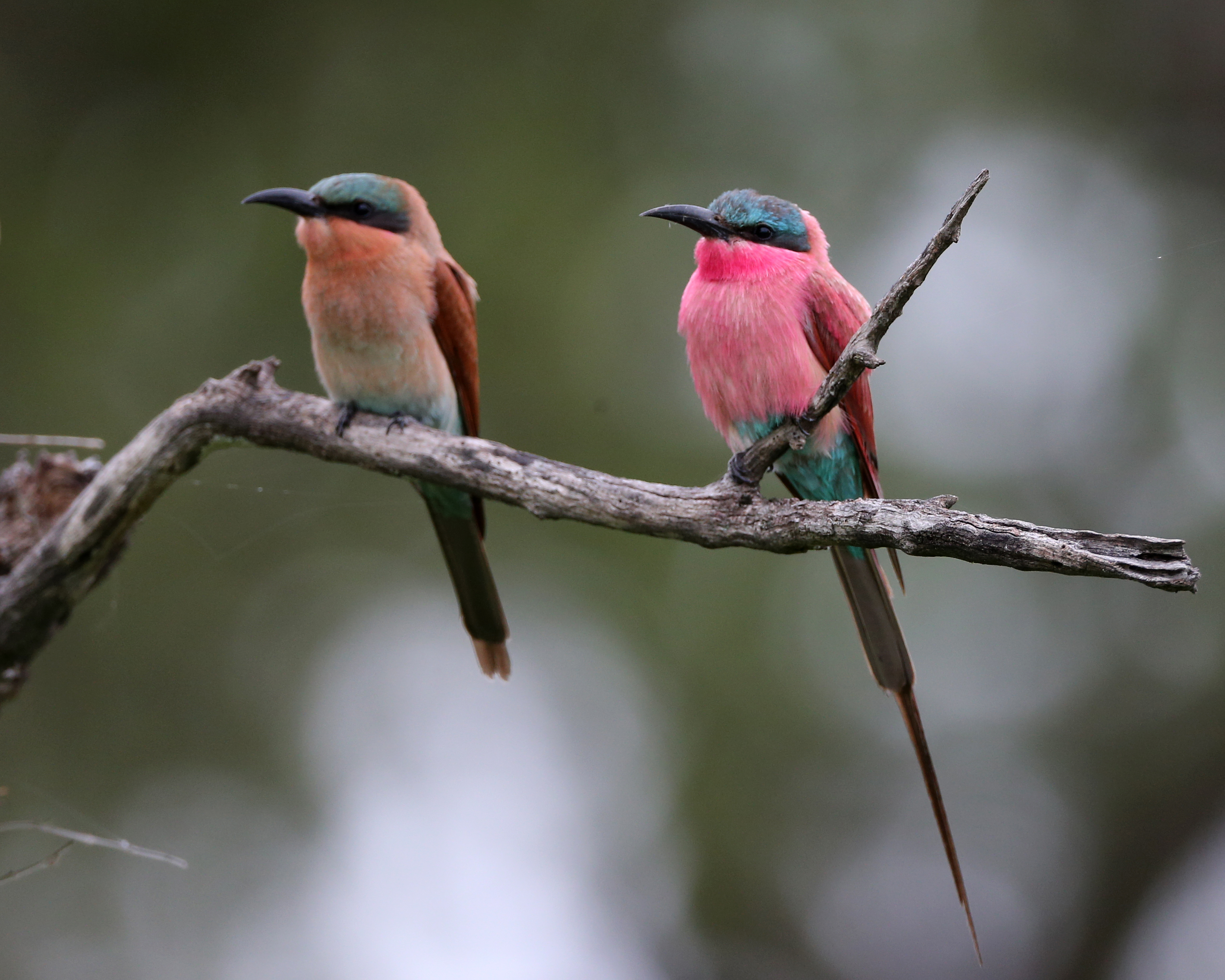 Southern Carmine Bee-eater Merops nubicoides, adult (right) and juvenile (left). Kasane, Botswana.